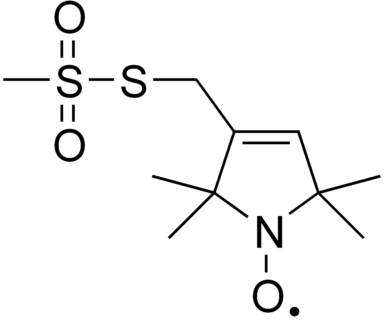 Chemical structure of MTSA